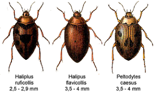 Haliplidae species